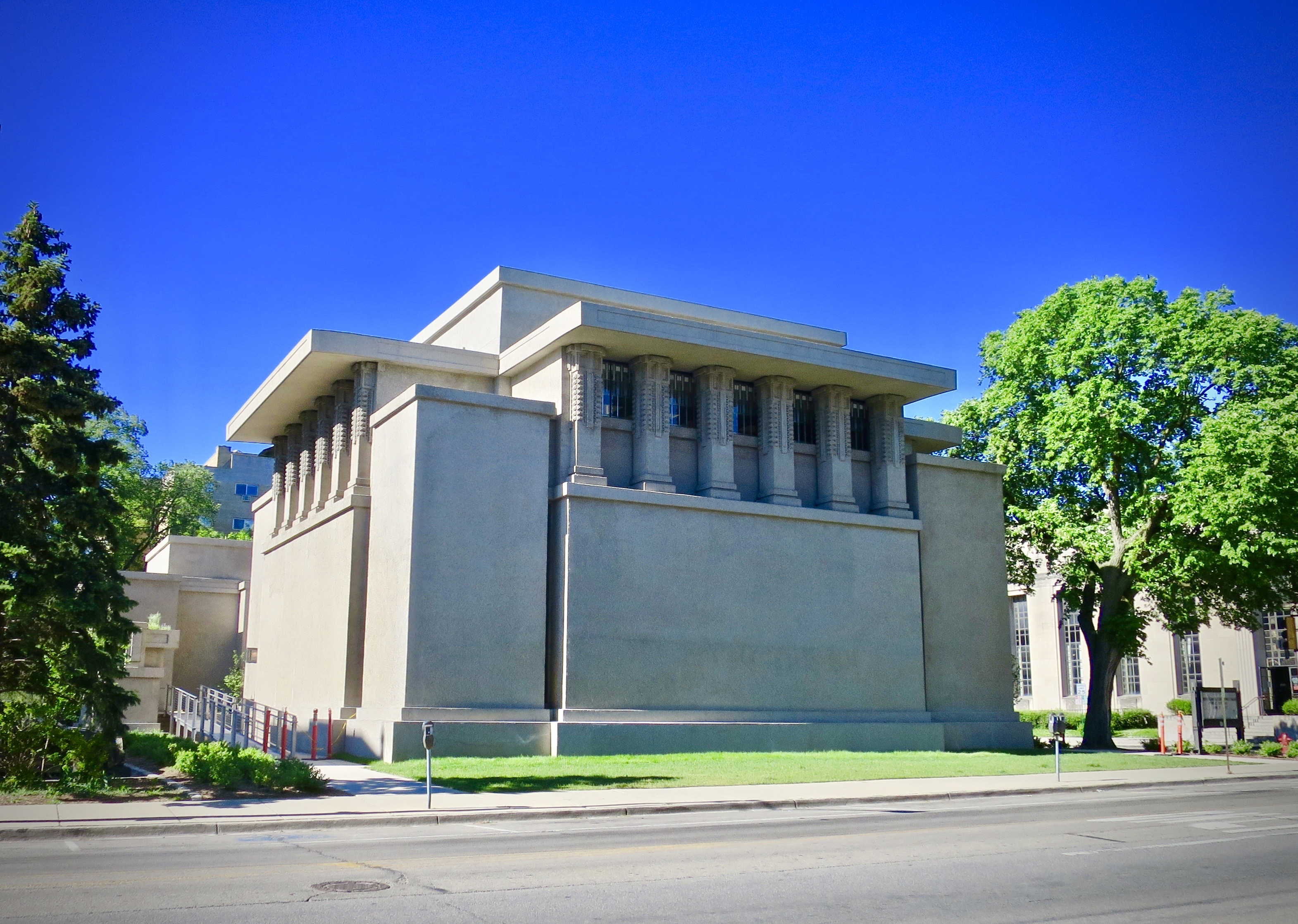 Unity Temple exterior renovation complete, June 2017